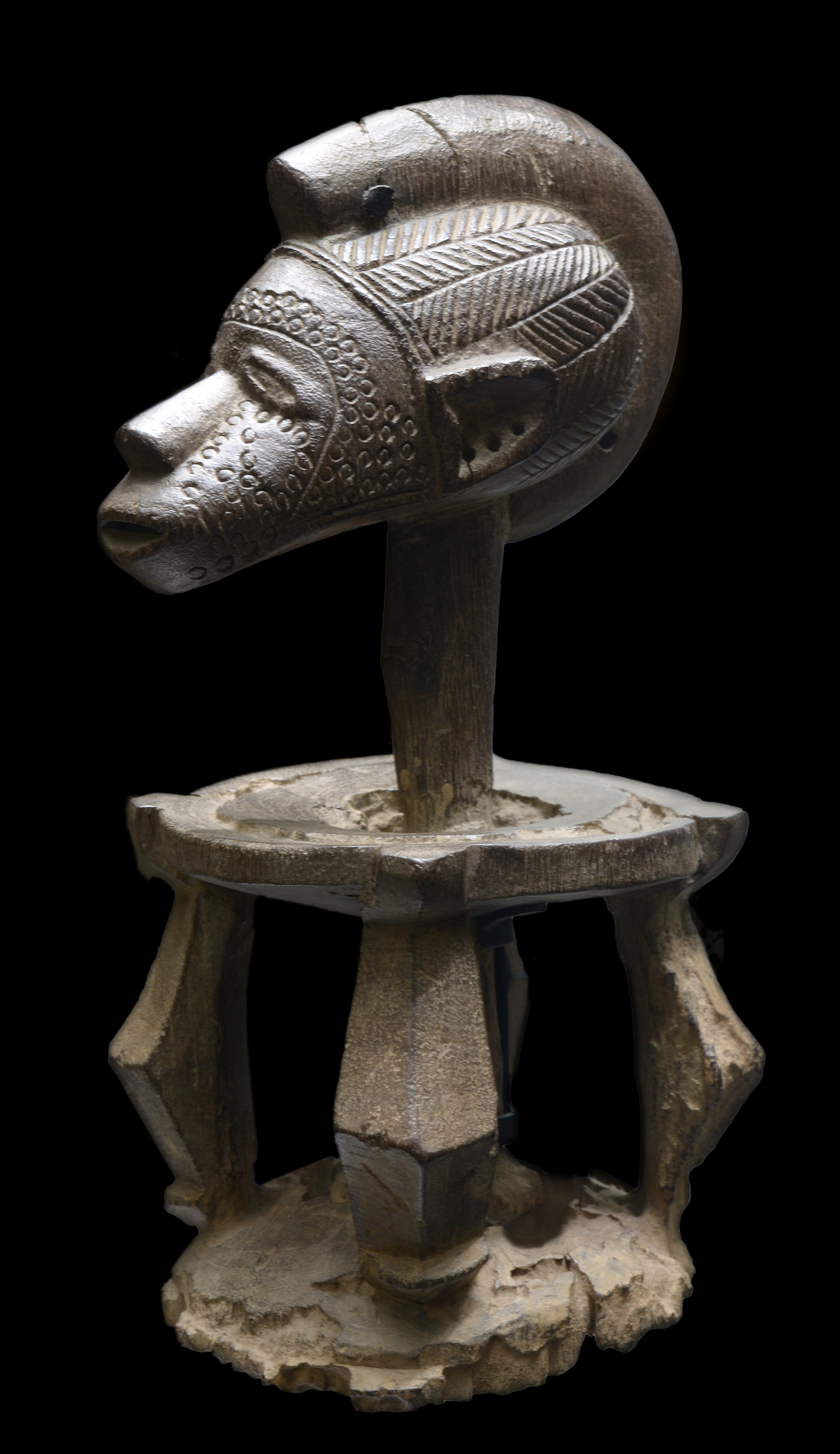 Wooden altarstatue (ëlëk) of Bulunits, Baga people, from Guinea.